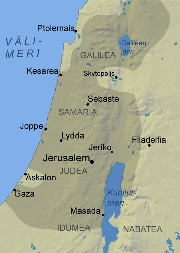 Herodeksen aikainen Juudea. Judea during the reign of Herod.